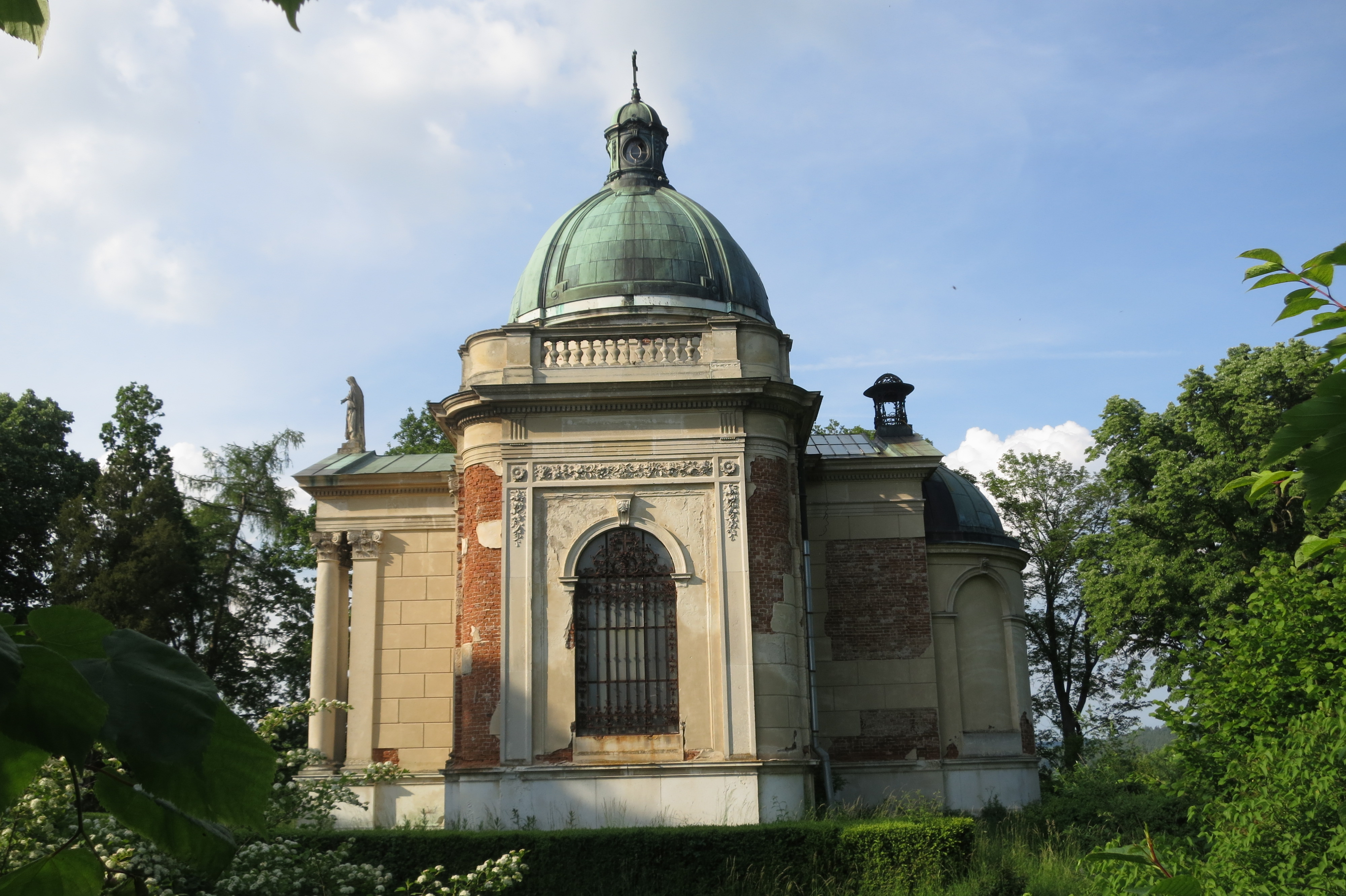 Pallavicini tomb near Jemnice, Třebíč District.